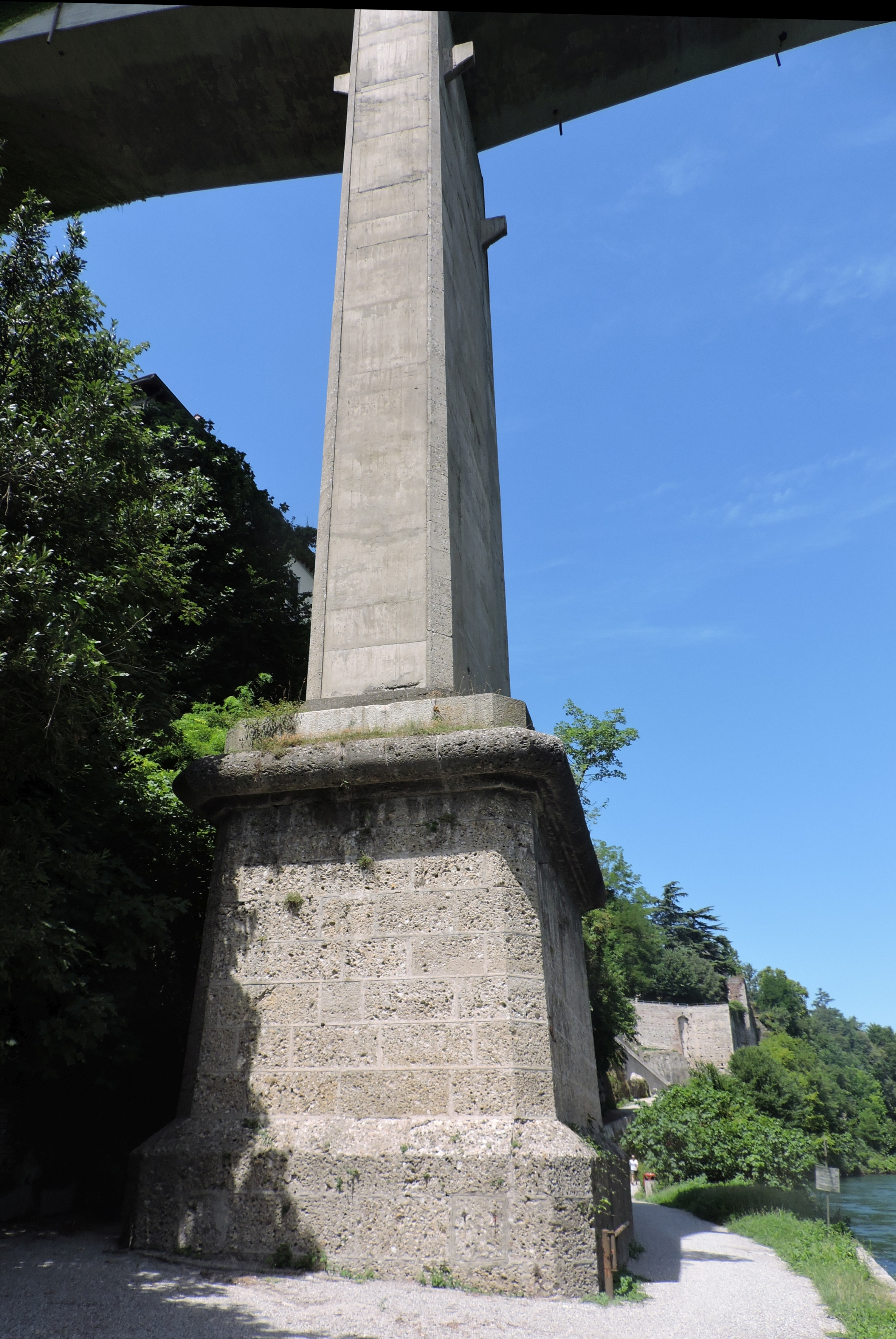 Bridge pillar with ceppo dell'Add conglomerate (Trezzo d'Adda, Italy)